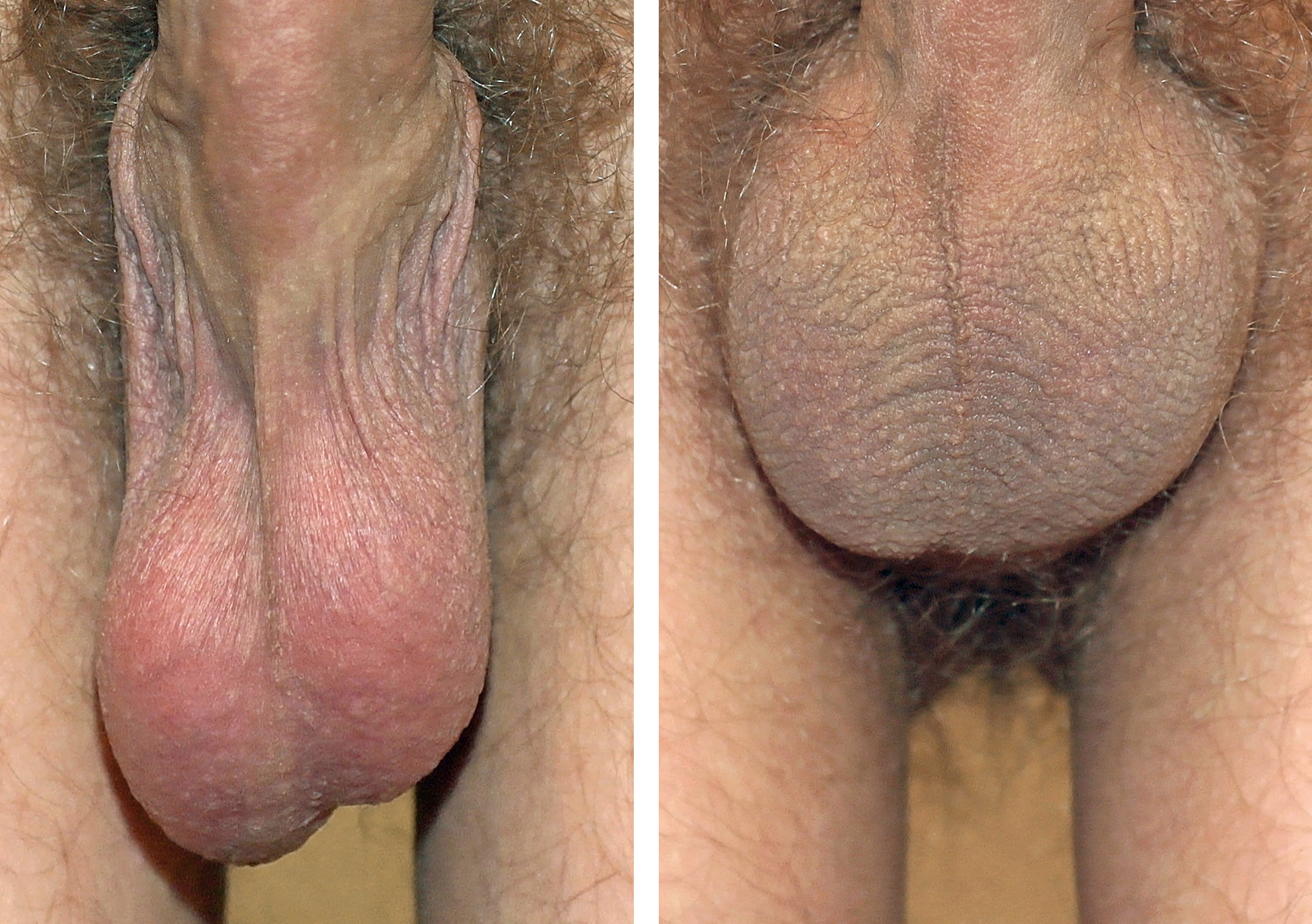 Scrotum in relaxed and tense states of a Southern European male, 31 years. The testicles are situated inside the scrotum as they need a lower temperature than the body. They usually differ slightly in size, one hanging lower than the other. At normal temperatures the scrotum and testicles are very loose, they retreat towards the body for various reasons (cold temperatures, sexual arousal, embarrassment, or simply without any reason ...). It is not possible to control the movements. Read my comments here: 123GLGL